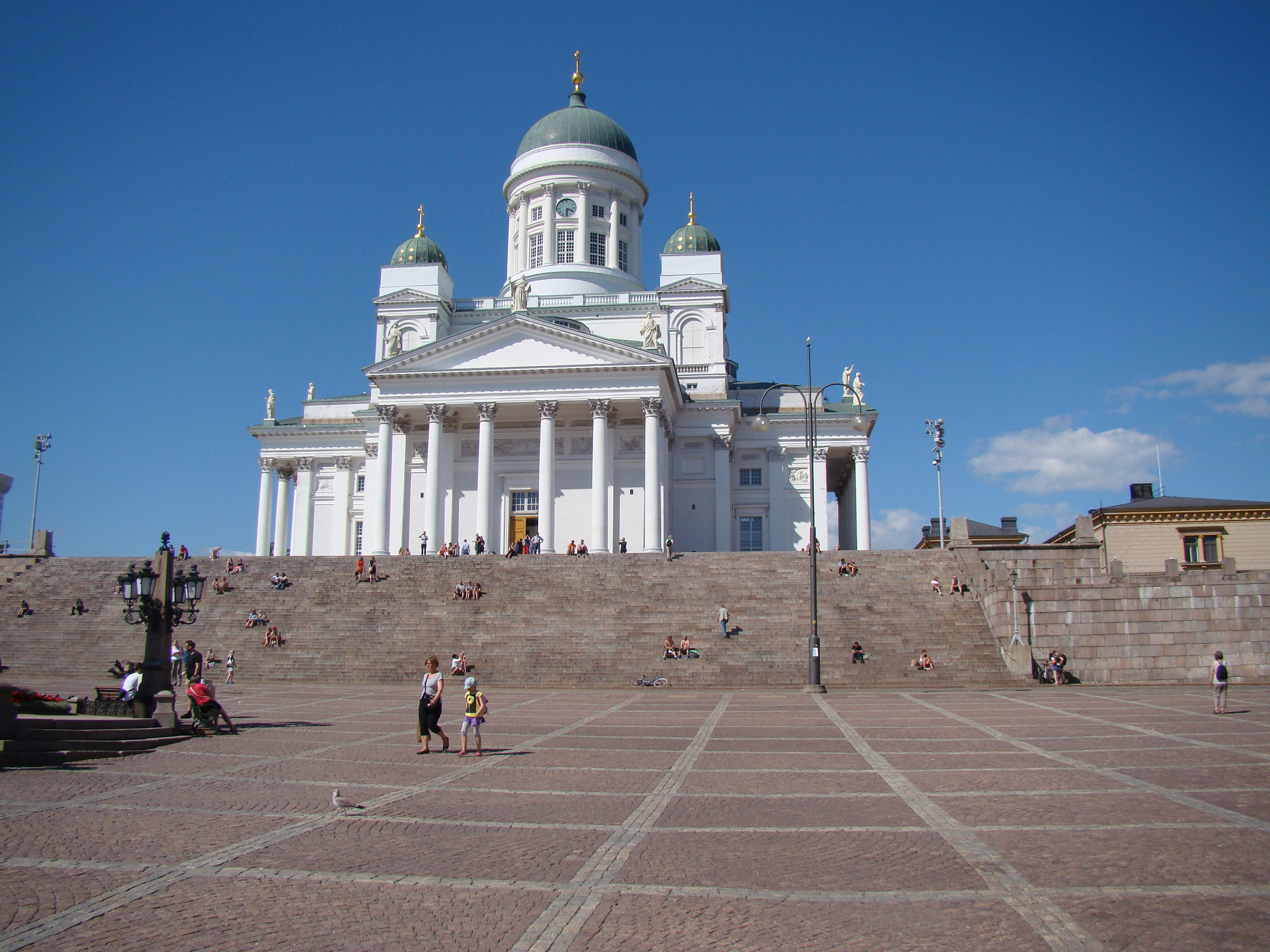 Helsinki Lutheran Cathedral